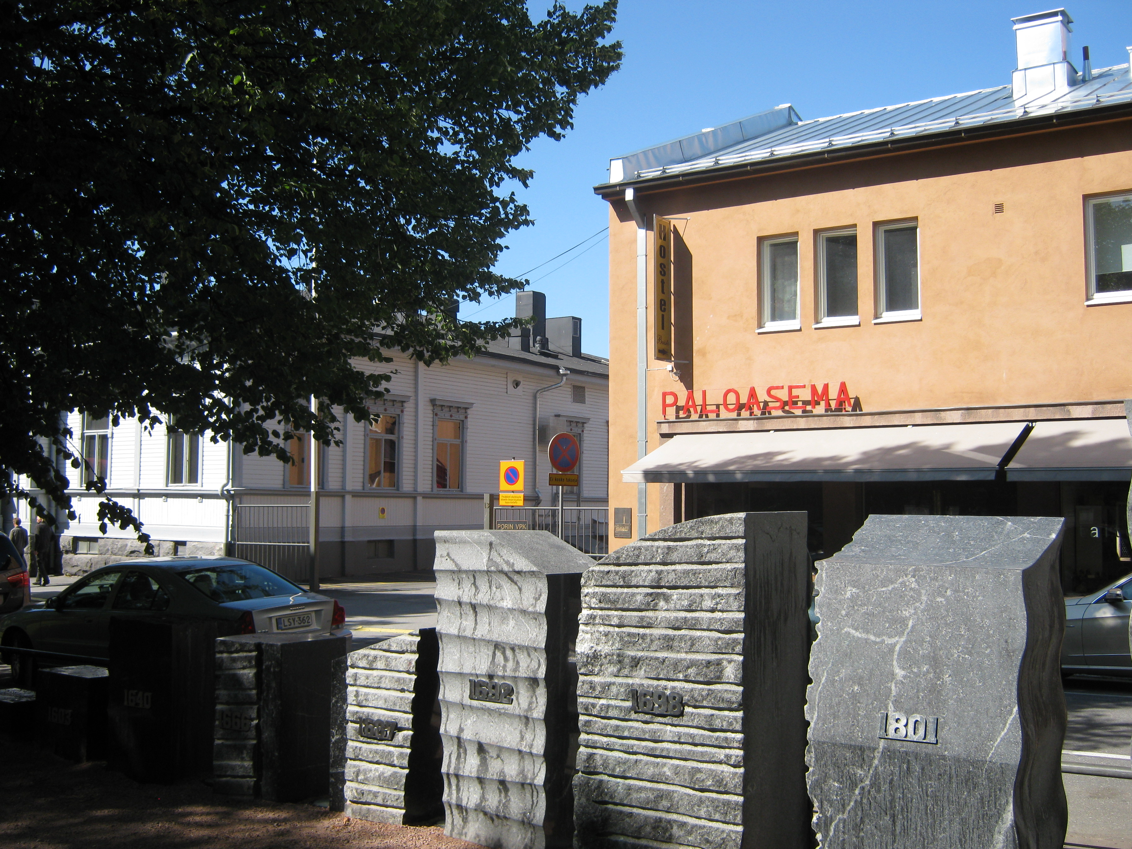 Fire station of Pori Volunteer fire department, Finland.